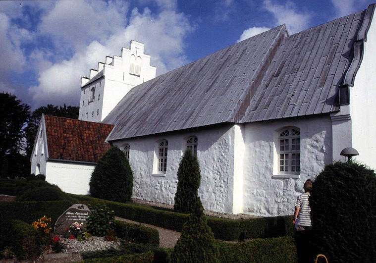 Bedsted Church in Tønder Kommune from apr. 1200